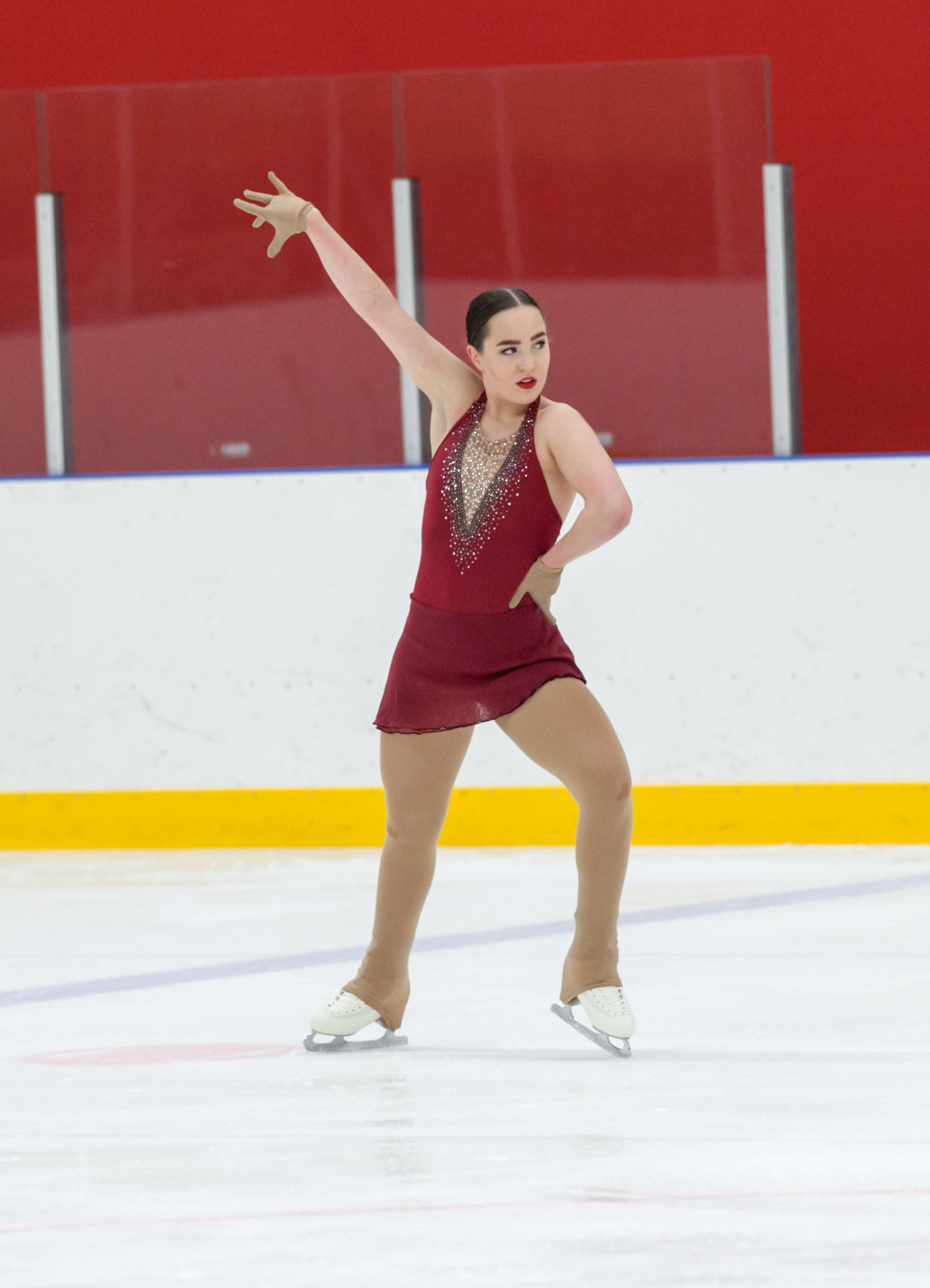 Eva Dögg Sæmundsdóttir stutt prógram